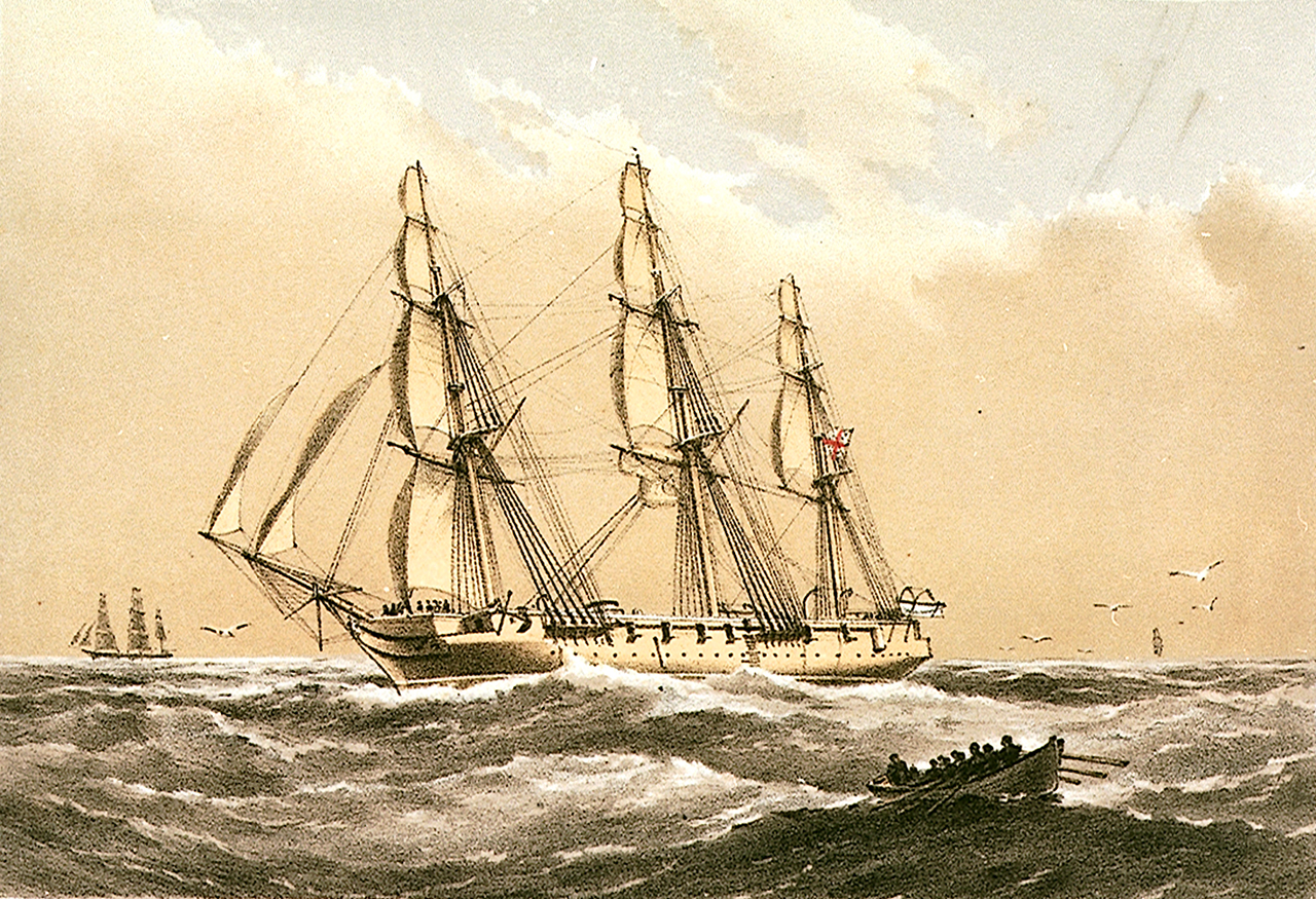 H.M.S. Diamond Print